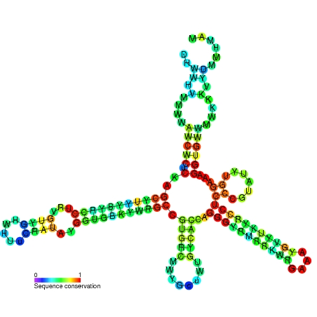 Secondary structure image for MOCO_RNA_motif non coding RNA (RF01055). Nucleotide colouring indicates sequence conservation between the members of this family.